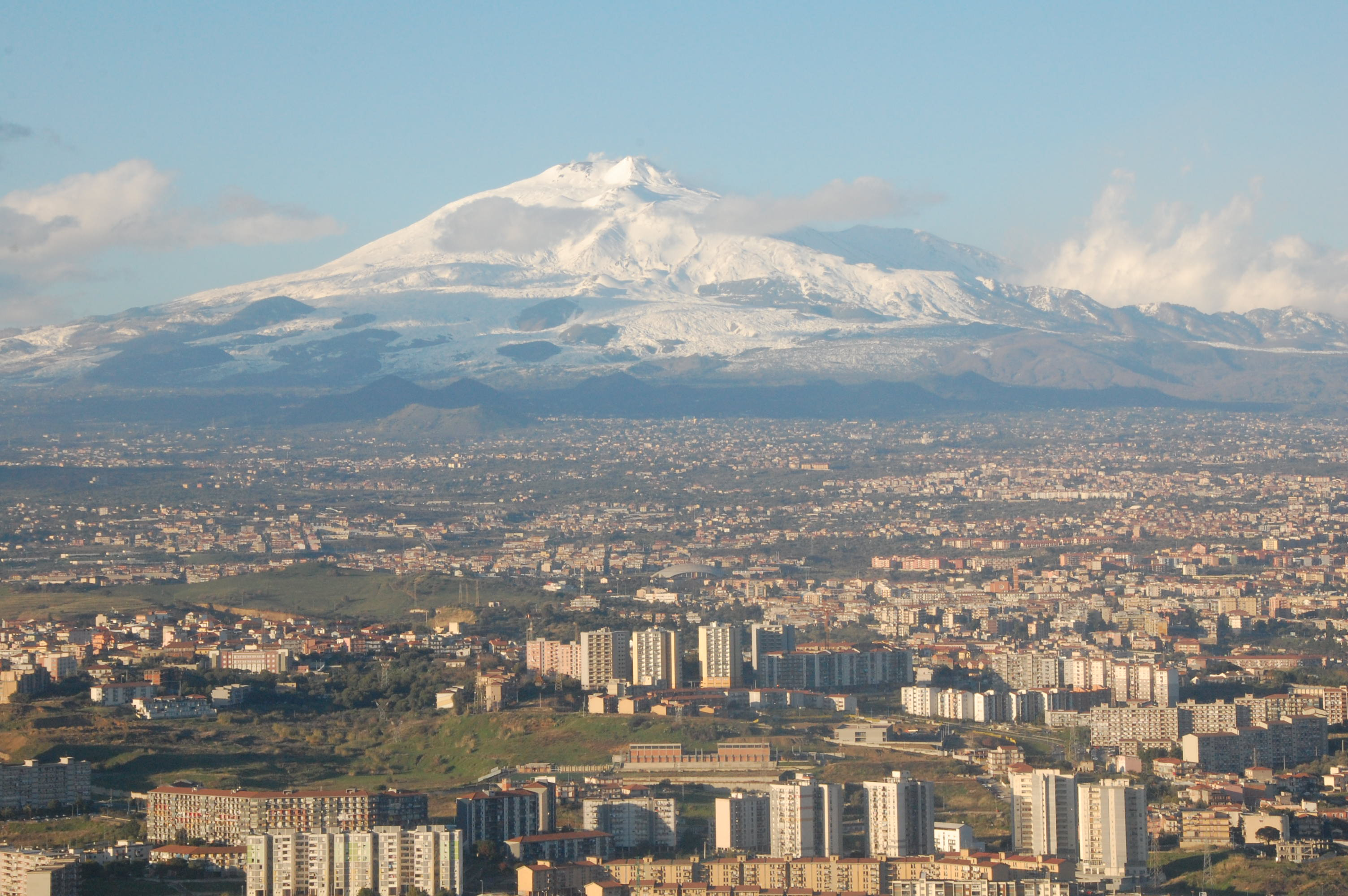 Mt Etna, with Catania in the foreground